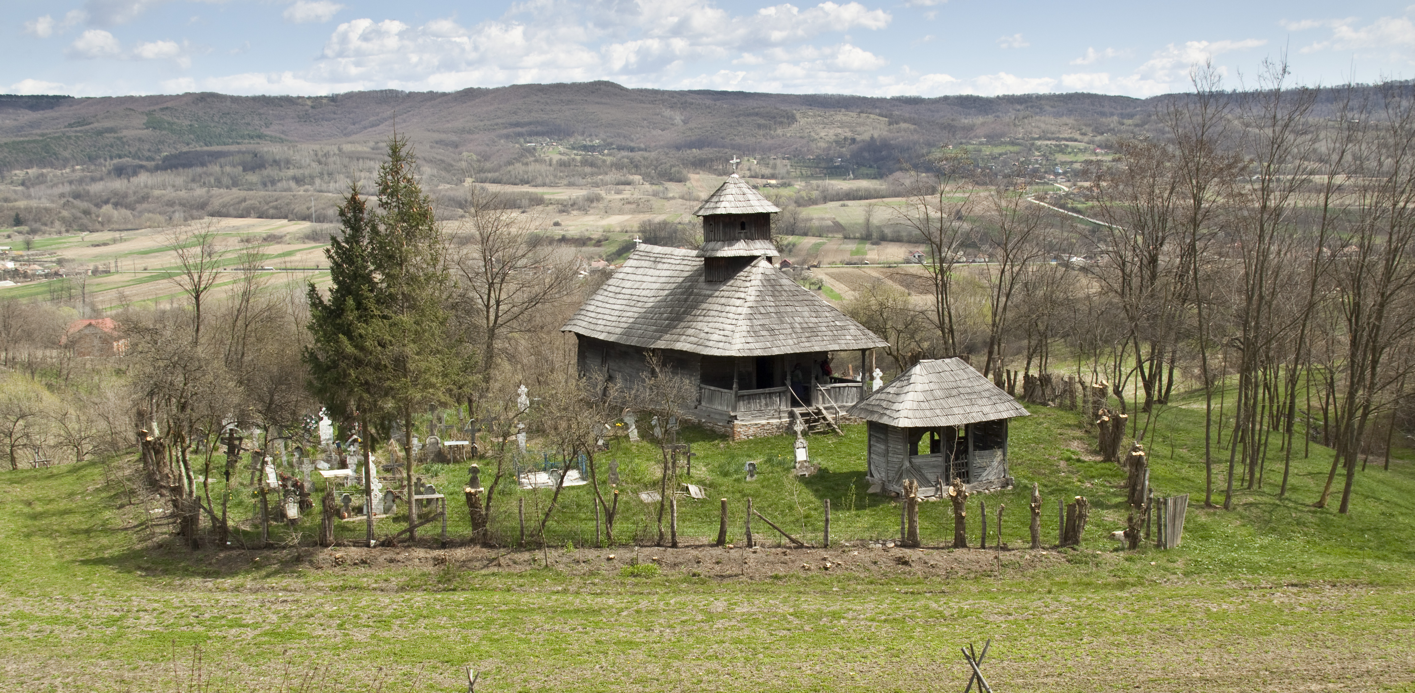 Ioaniceşti-Găbrieni, Argeş county, Romani: the wooden church.